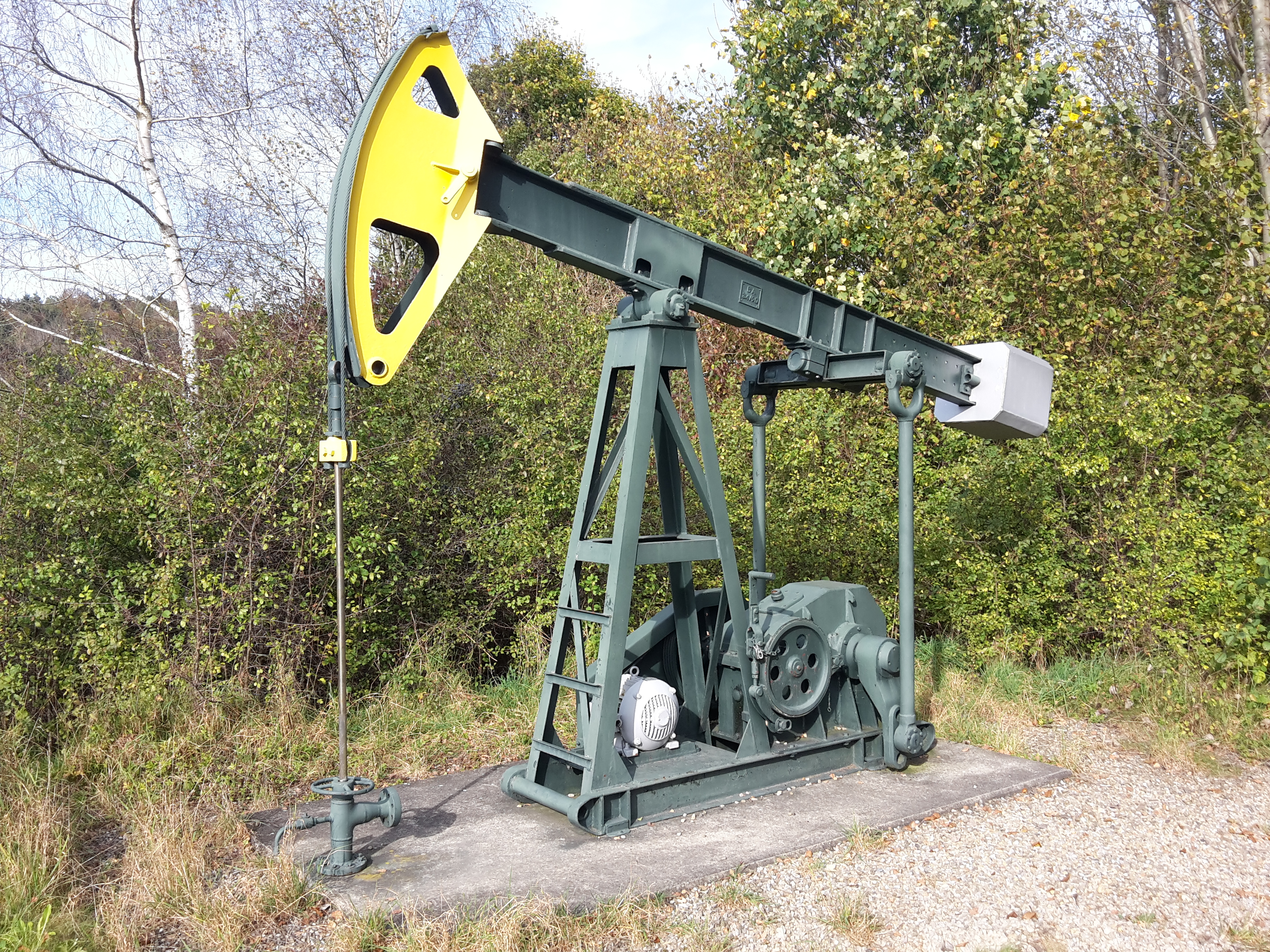 Monument to the former oil field Mönchsrot near Rot an der Rot in Upper Swabia